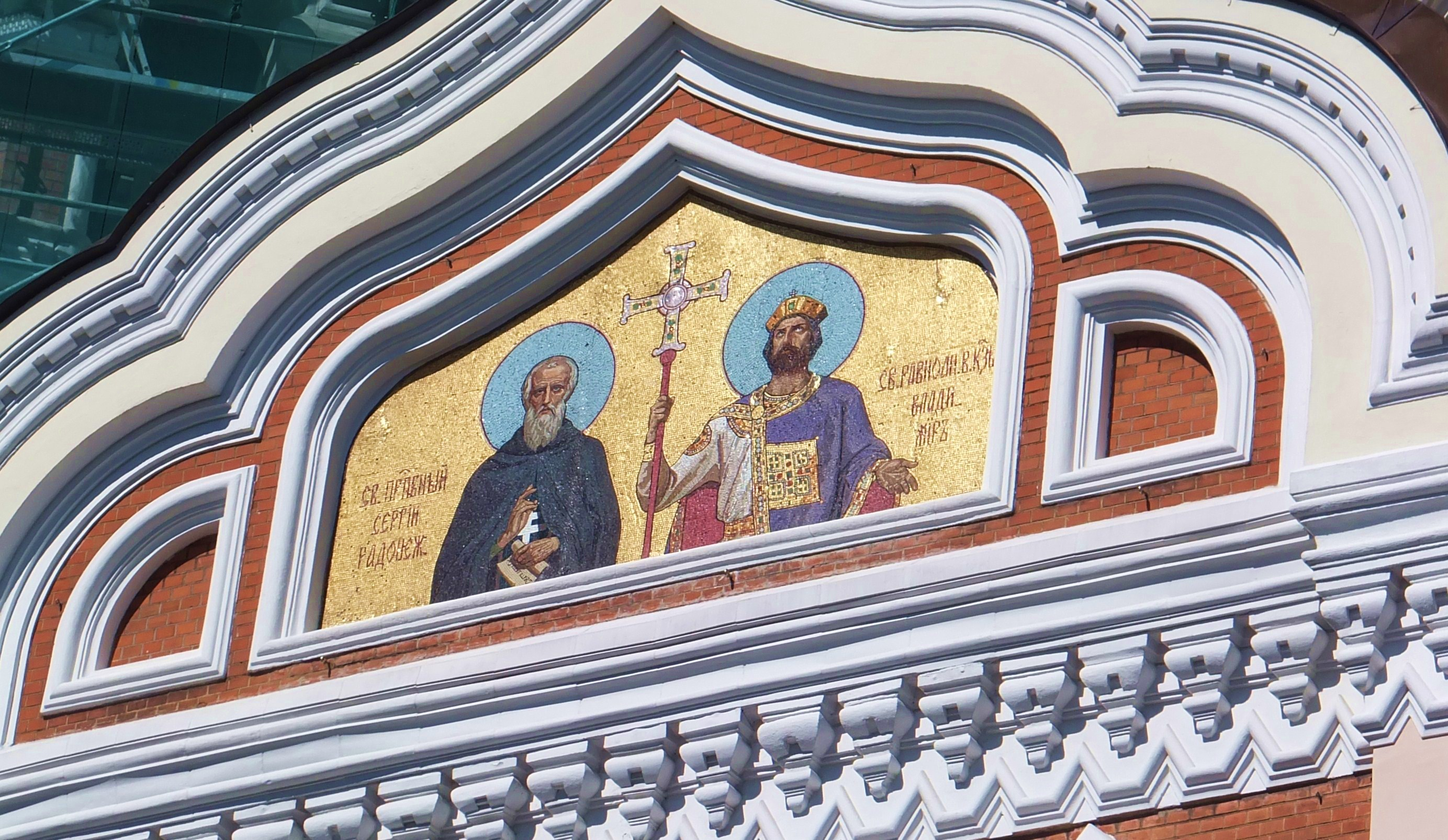 Mosaic designs on the front of the Alexander Nevsky Cathedral.